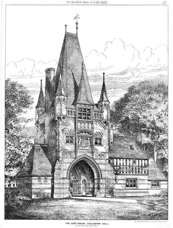 Drawing of Eccleston Hill Lodge, Cheshire, England published in The Building News